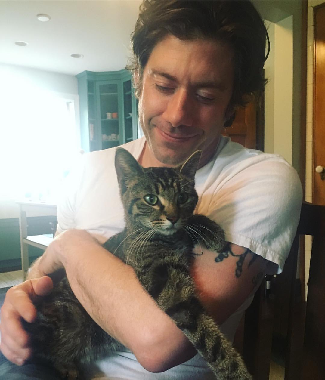 Wes Borland holding one of his cats from part of his rescue, Motor Kitty Rescue in Detroit, MI.